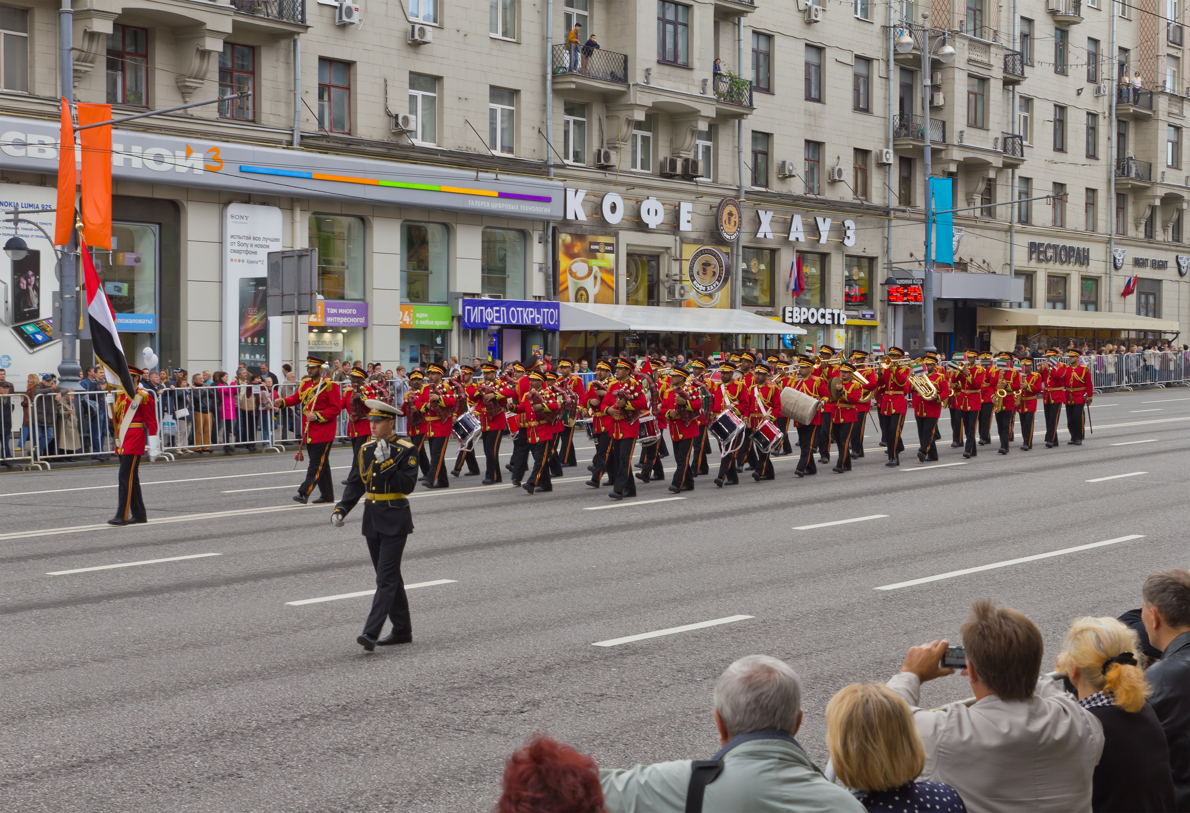 Day of the Town 2013 in Moscow, Russia. Tverskaya Street.